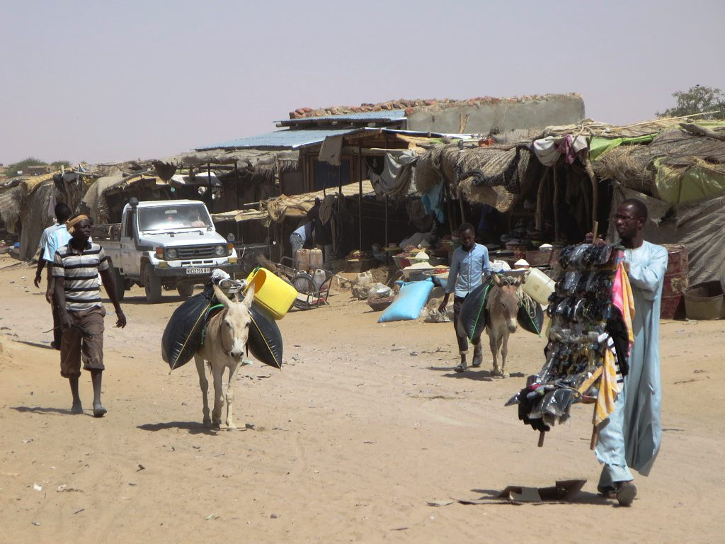 Kalait is one of the few supply centers between Abeche and Fada in northeastern Chad, Central Africa.